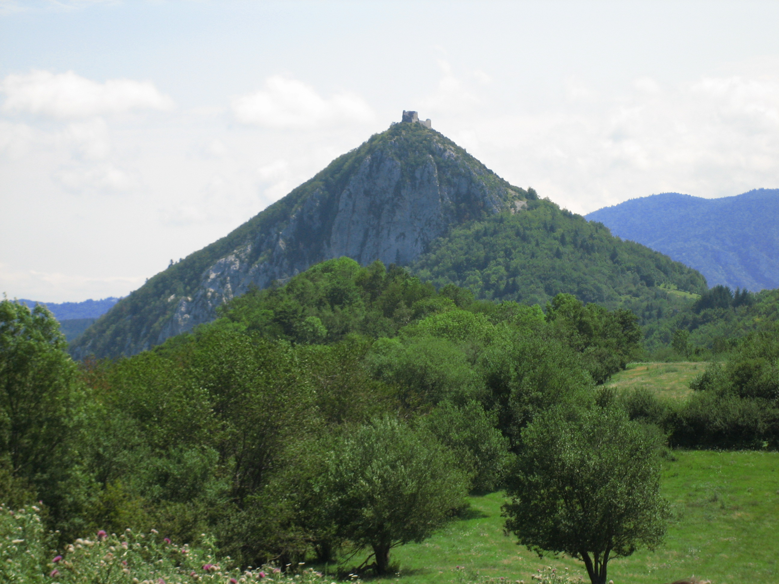 Fortress of Montségur, Montségur, Canton of Lavelanet, Arrondissement of Foix, Ariège, Midi-Pyrénées, France